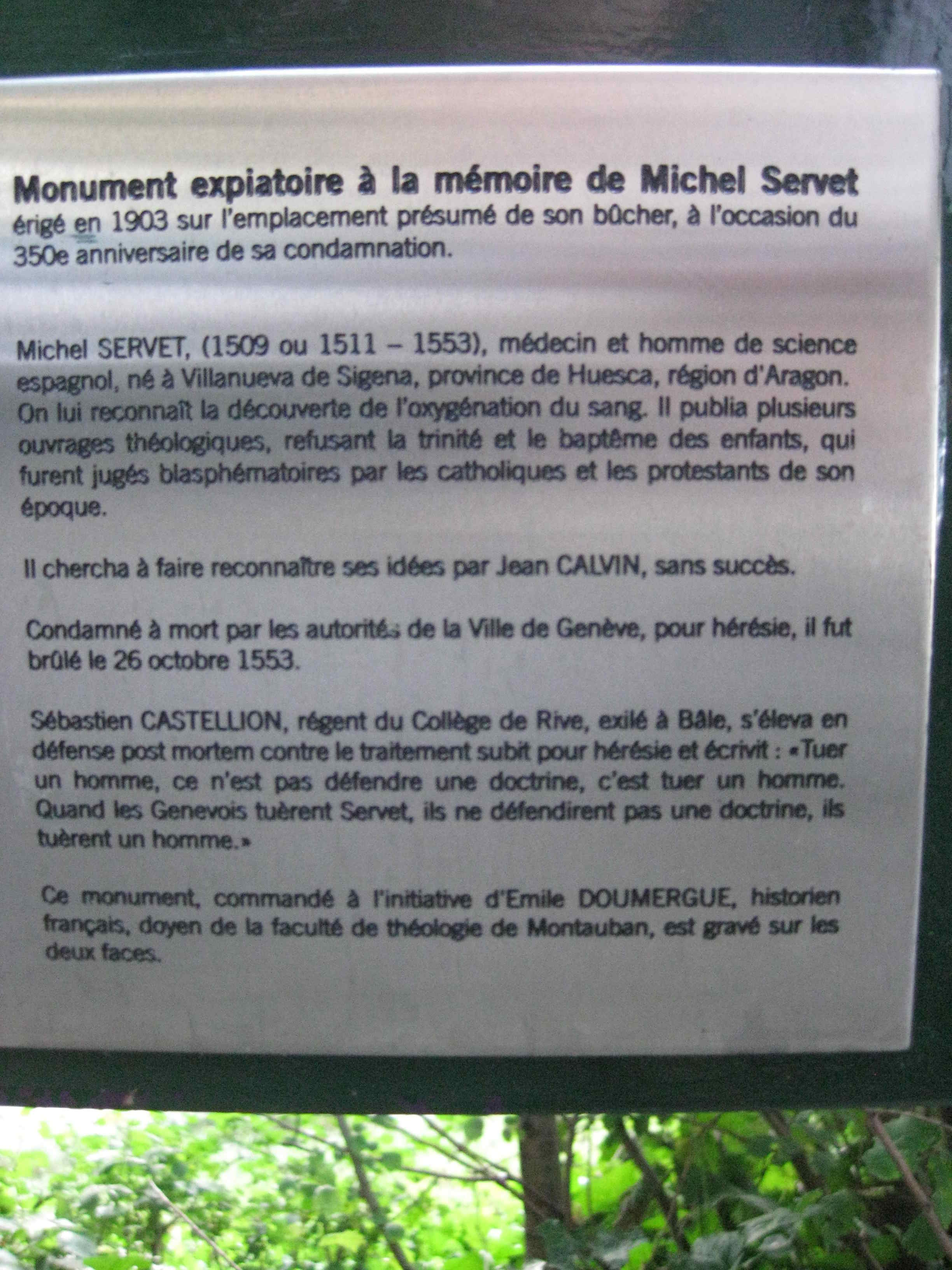 Explantory note next to the monument to Michel Servet in Geneva